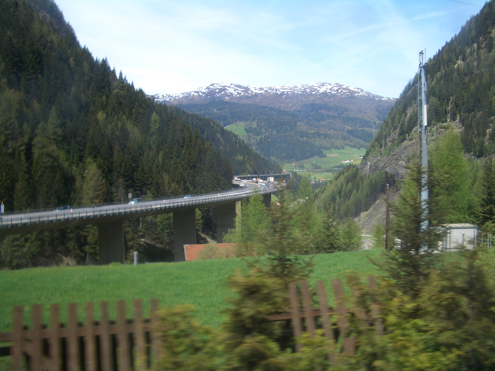 Highway near Brenner pass, seen from a train